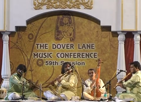 Music Festival: Dover Lane Music Festival Date: January 25, 2011 Venue: Kolkata Artists: Pt. Rajendra Prasanna Sh. Rajesh Prasanna Sh. Rishab Prasanna Pt. Samar Saha (tabla) Sh. Swapan Vishwas (tanpura)